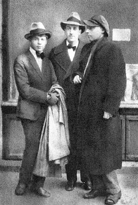 Поэты: Сергей Есенин, Анатолий Мариенгоф, Велемир Хлебников. Фотография. Харьков 1920 год